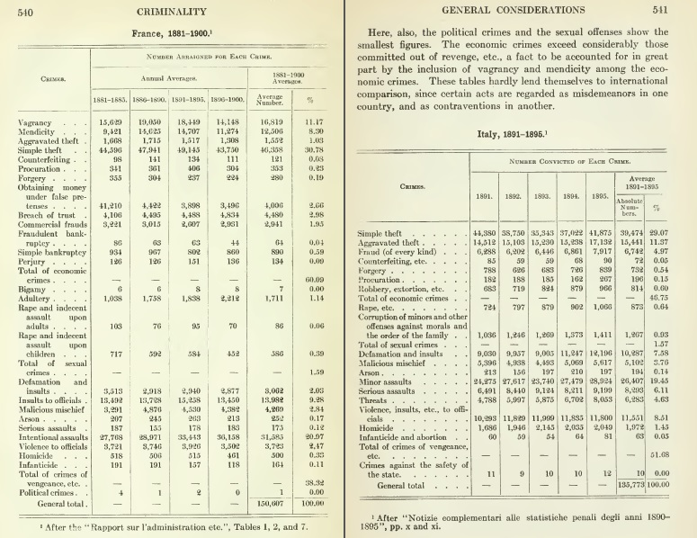 Example of statistics table in the works of Willem Bonger